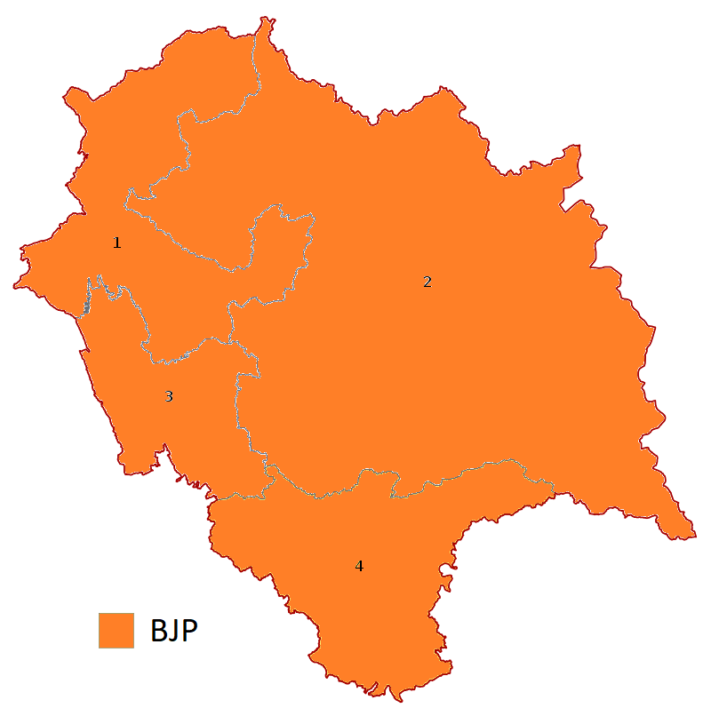 Seat Sharing of NDA in Himachal Pradesh in 2019 General Election